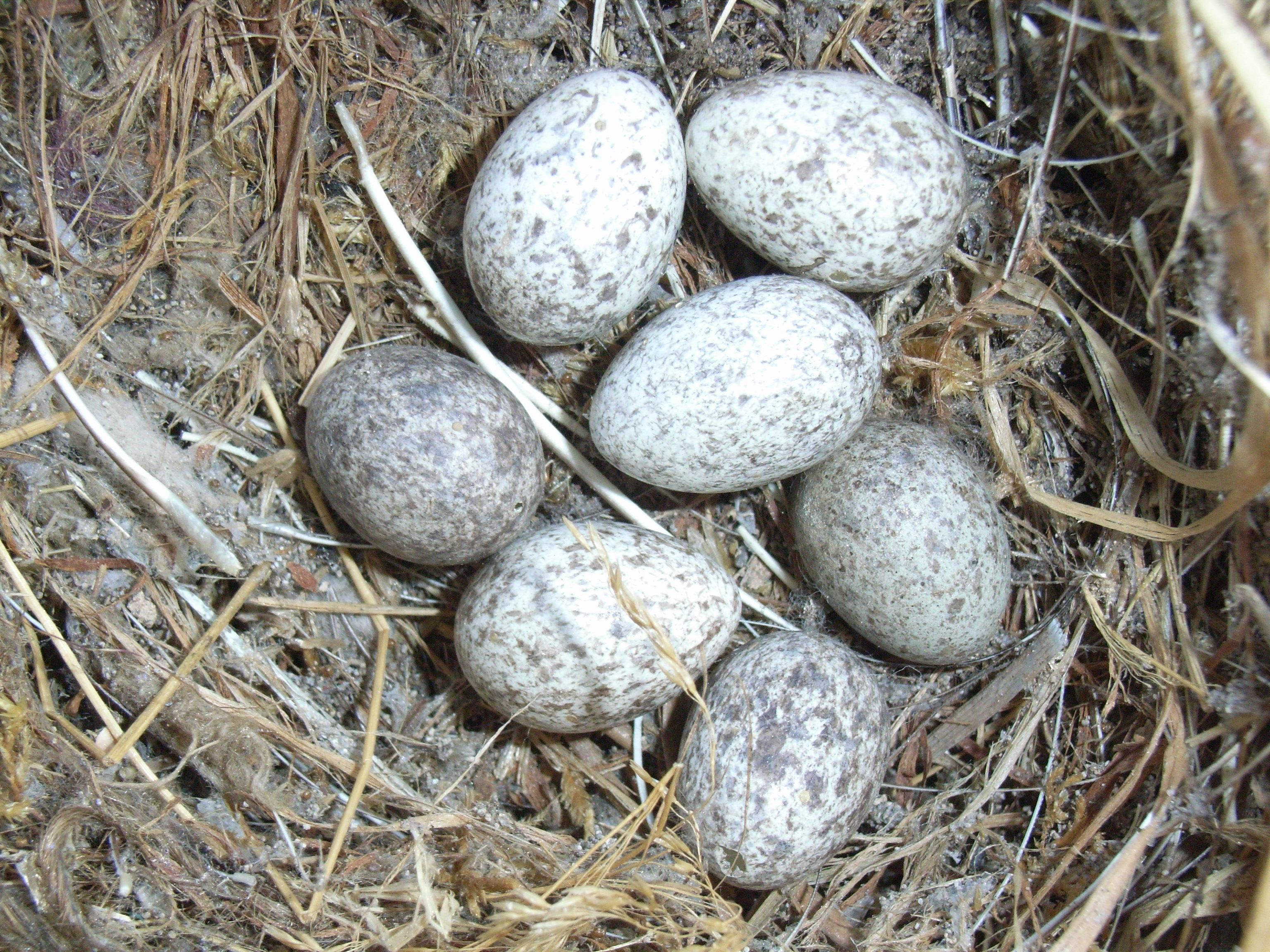 Clutch of House Sparrow eggs